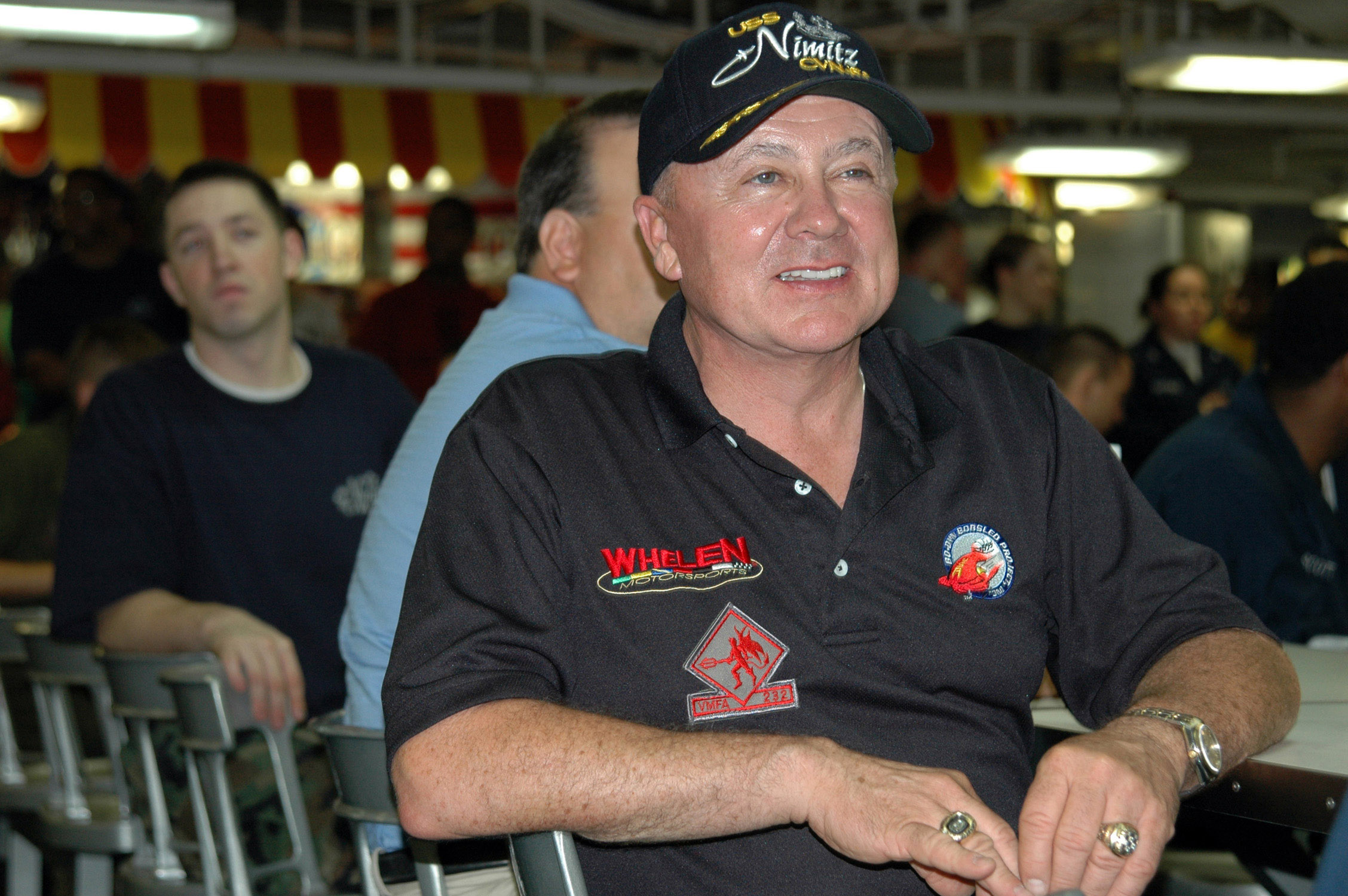 INDIAN OCEAN (May 16, 2007) - Former NASCAR driver Geoff Bodine watches a karaoke performance on the mess decks with Sailors aboard nuclear-powered aircraft carrier USS Nimitz (CVN 68). Nimitz Carrier Strike Group and embarked Carrier Air Wing 11 are deployed to 5th Fleet conducting Maritime Security Operations in support of the global war on terrorism. U.S. Navy photo by